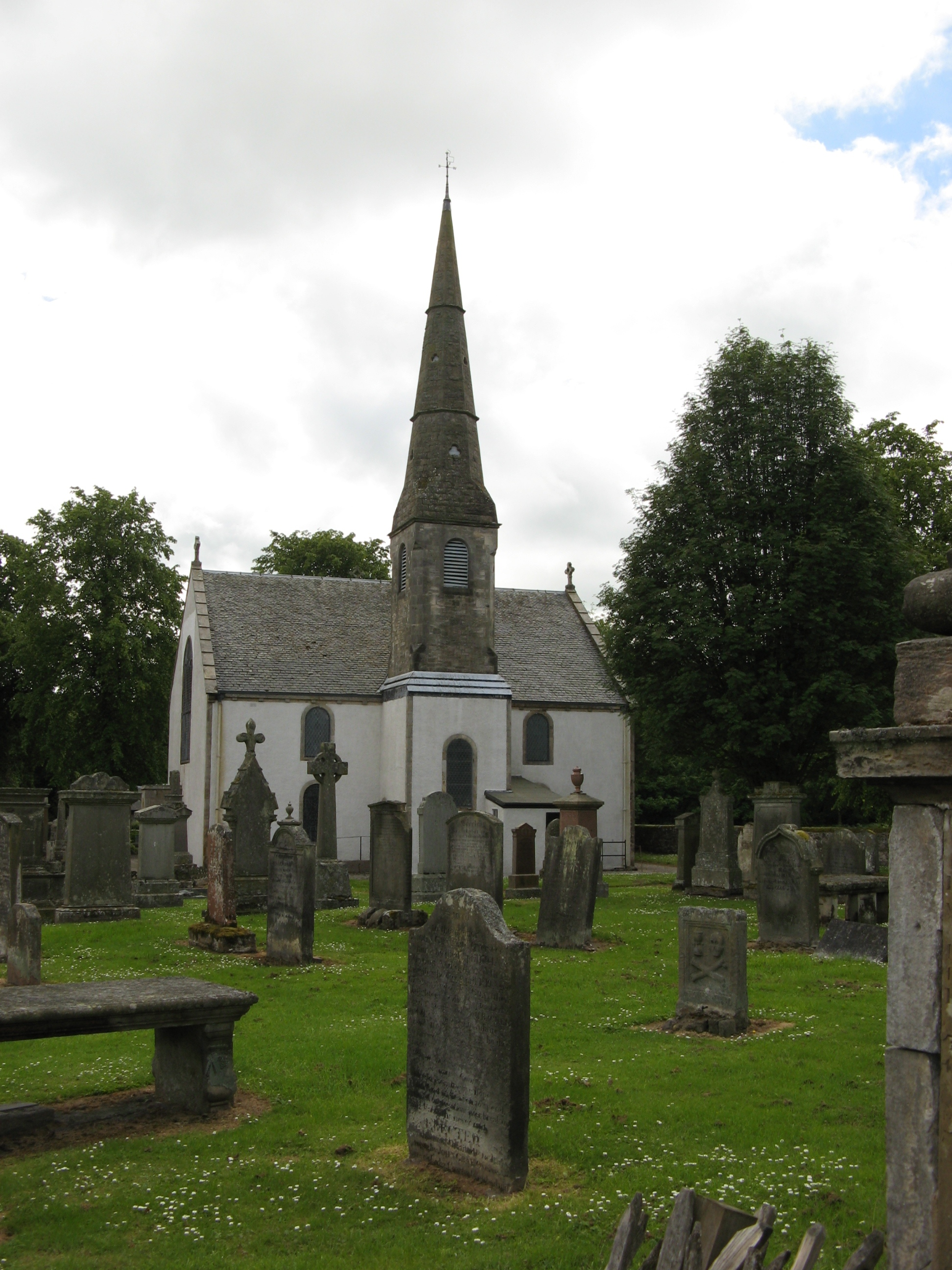 Parish Church in West Linton, Scottish Borders